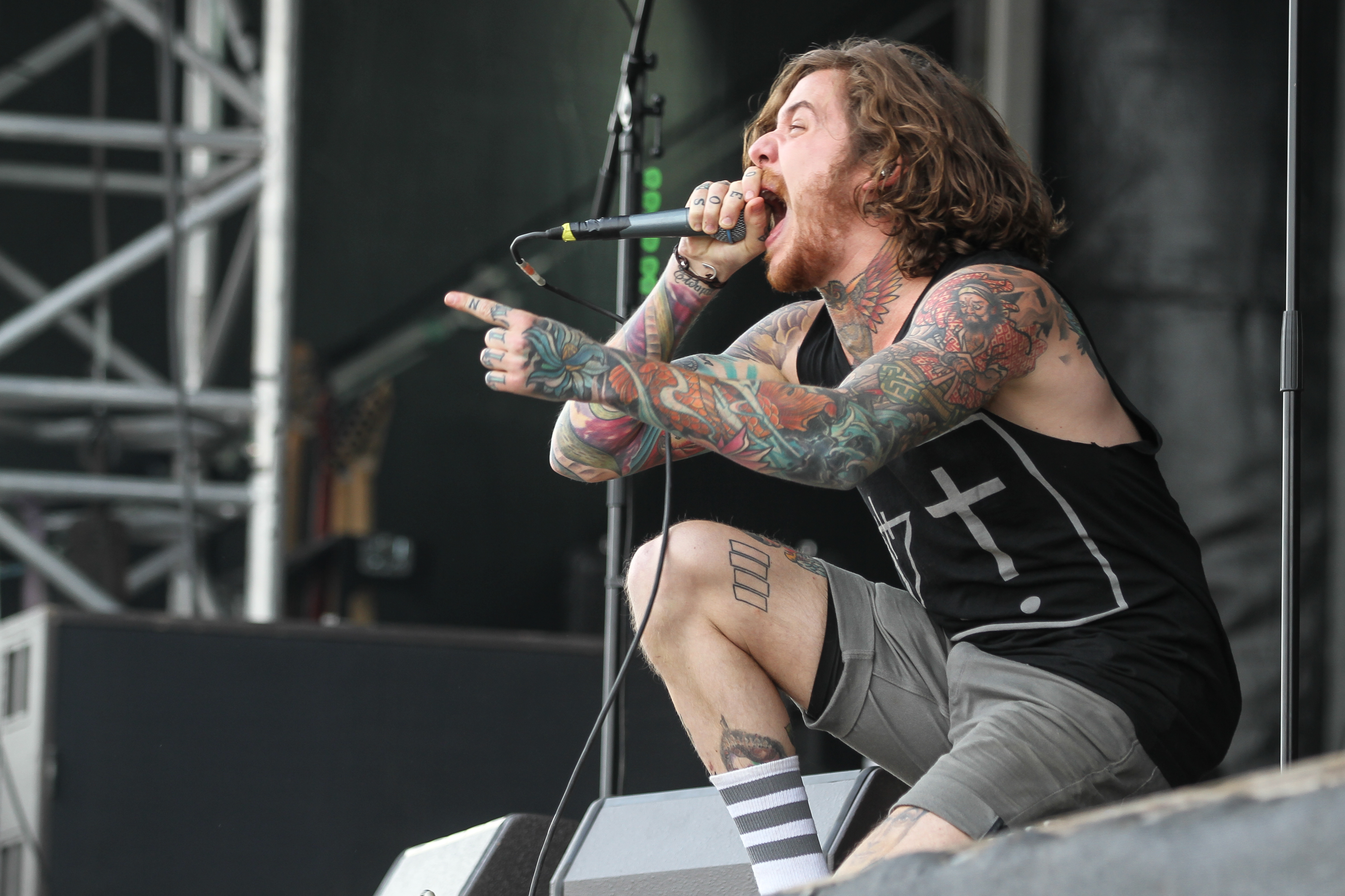 Festivalsommer This photo was created with the support of donations to Wikimedia Deutschland in the context of the CPB project "Festival Summer".